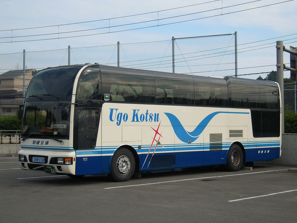 Ugo Kotsu Volvo Asterope (KC-B10MD).